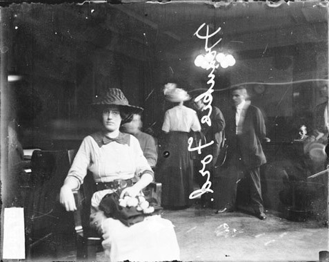 Portrait of Frankie Fore, woman, sitting in a room during a vice quiz in Calumet City (formerly known as West Hammond), Illinois. (This photonegative taken by a Chicago Daily News photographer may have been published in the newspaper.)